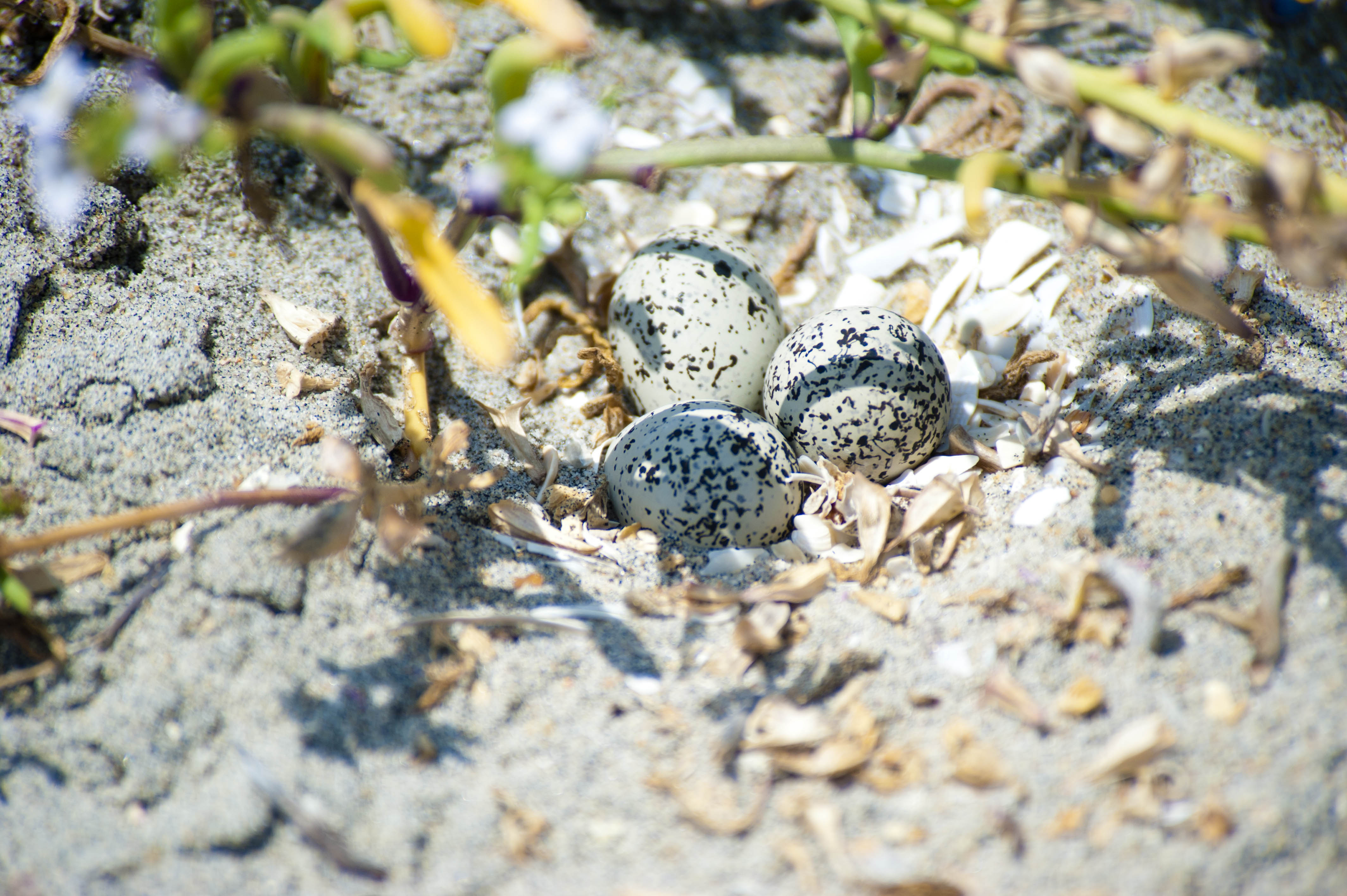 Three Snowy Plover eggs in a nest on the beach at Silver Strand Training Complex, San Diego County, California, USA.